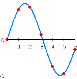 This plot illustrates polynomial interpolation. It was produced by running gnuplot on the following file set terminal png font "/usr/share/fonts/truetype/ttf-bitstream-vera/Vera.ttf" size 300,300 crop set output "Interpolation_example_polynomial.png" set key off set xzeroaxis set xtics axis 1,1 set ytics nomirror 1 set border 2 f(x) = - 0.0001521*x**6 - 0.003130*x**5 + 0.07321*x**4 - 0.3577*x**3 \ + 0.2255*x**2 + 0.9038*x set yrange [-1.1:1.1] plot f(x) with lines linetype 3 linewidth 4, \ "-" with points linetype 1 pointtype 7 pointsize 1.5, \ 0 with lines -1 0 0 1 0.8415 2 0.9093 3 0.1411 4 -0.7568 5 -0.9589 6 -0.2794 e